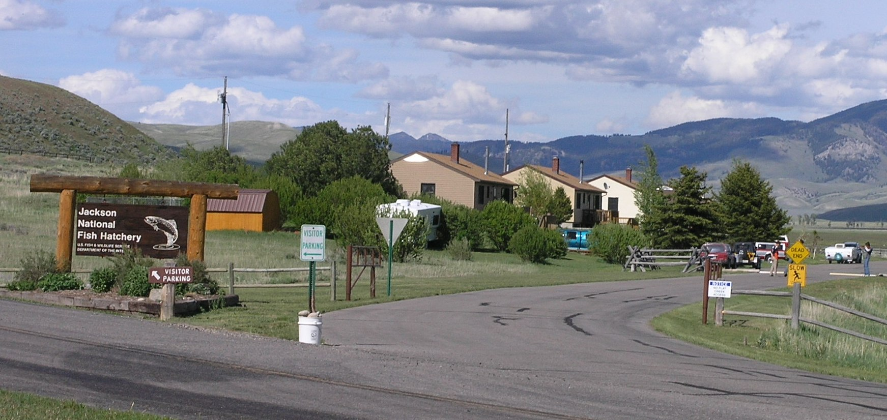 Photo in or around Grand Teton National Park